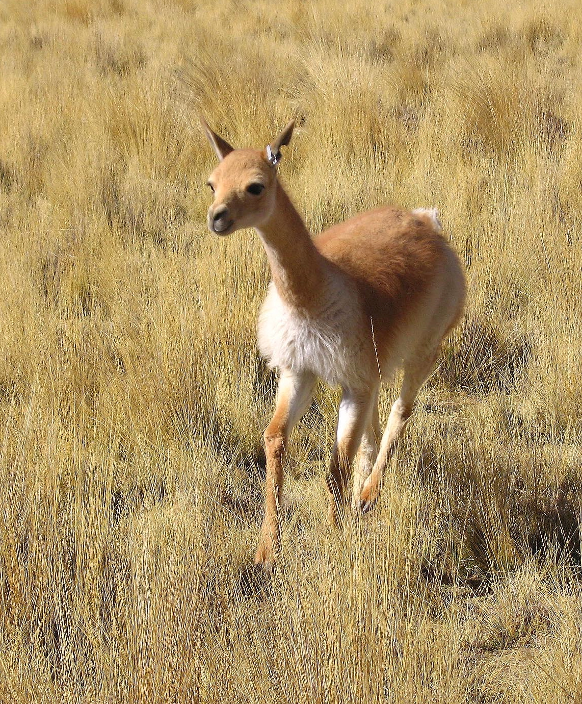 Female Vicuña (Vicugna vicugna), 65°49'30W & 22°48'02S, 3,460 m a.s.l., 25.10.05 by Rico Hübner Image is cropped by user:Roarjo